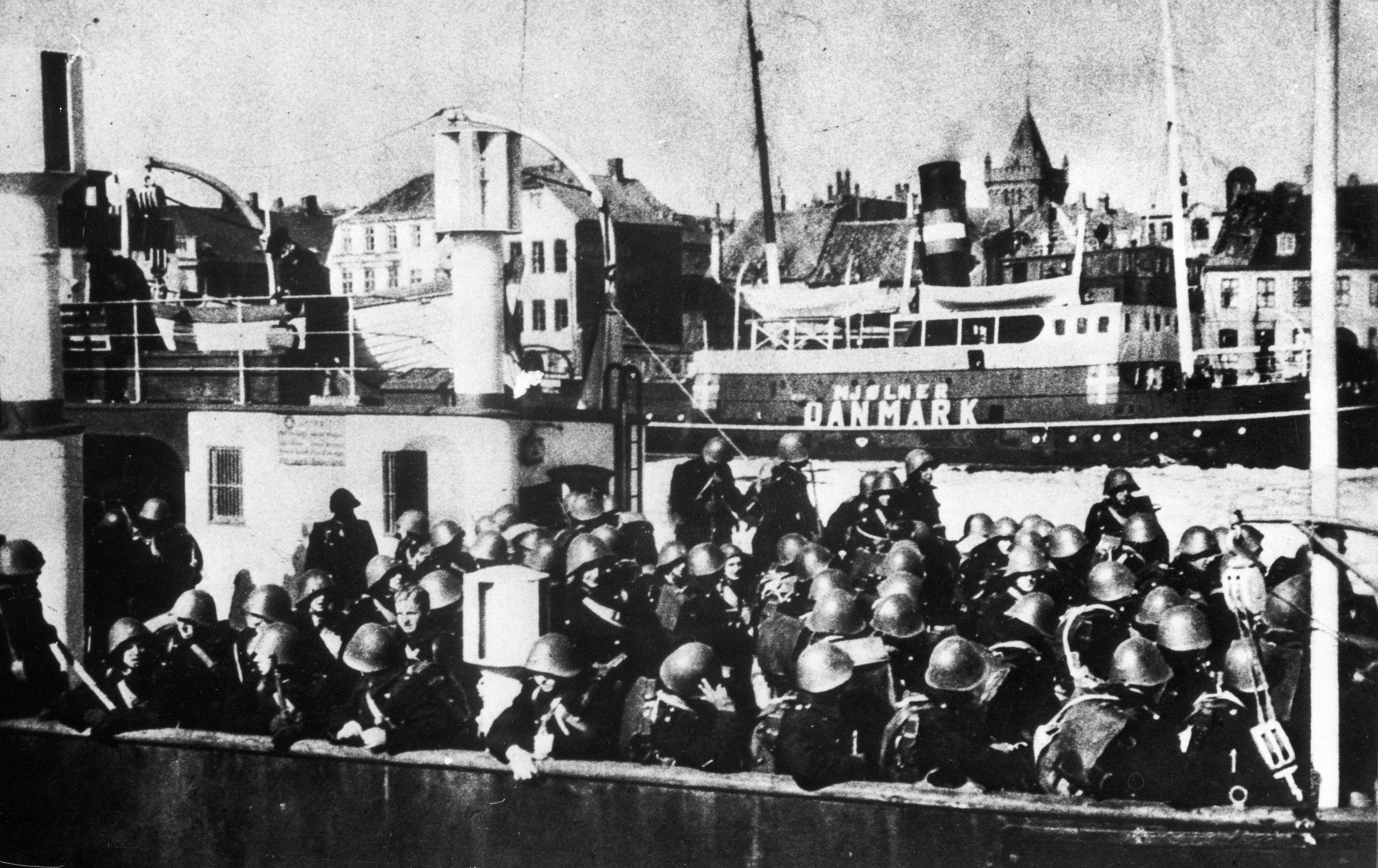 Colonel Bennike's unit seizes a Helsingør ferry to evacuate to Sweden during the German invasion